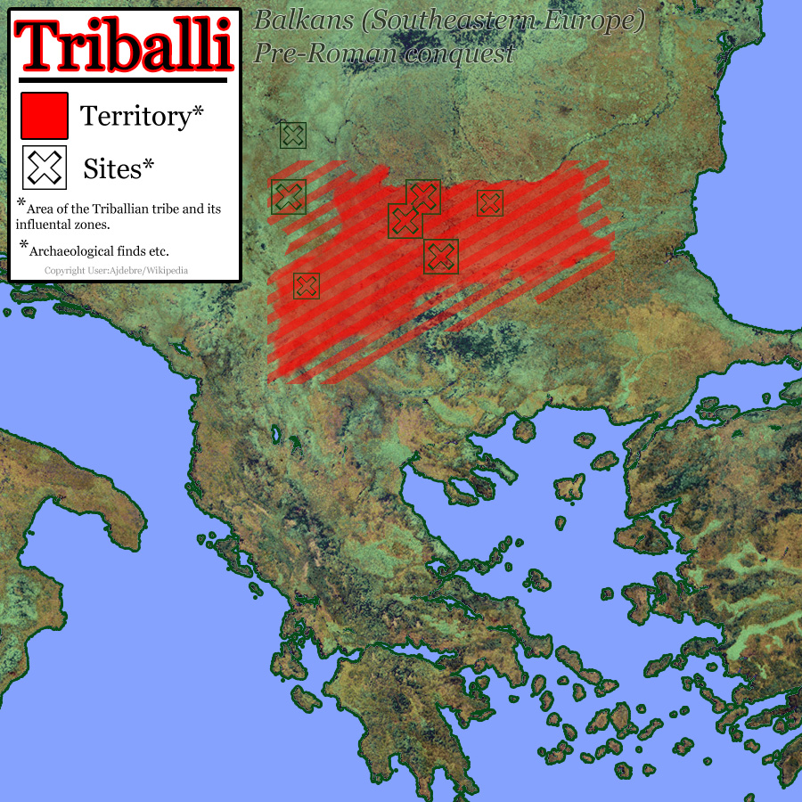 Triballi were a Thracian tribe in present day Serbia and Bulgaria. The map shows their habitat, zone of influence and sites of Triballian culture.